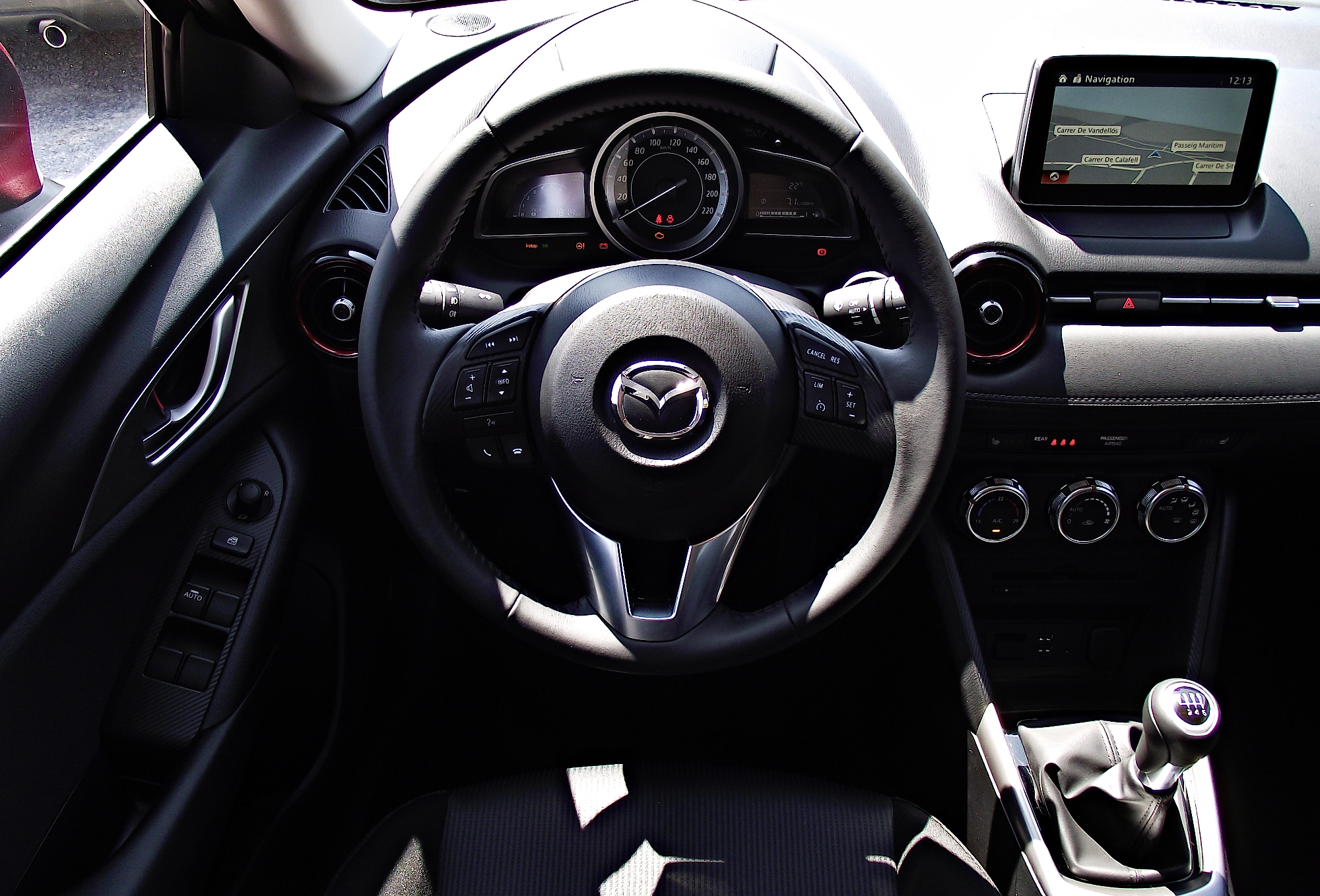 Mazda CX-3 2.0 SKYACTIV-G 150 AWD Exclusive-Line Interior